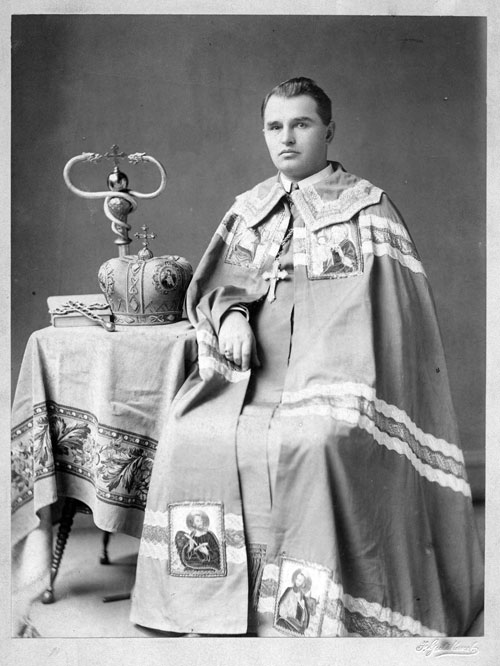 THE FIRST GREEK CATHOLIC BISHOP IN THE UNITED STATES OF AMERICA . Bishop Ortynsky seated in choir dress. Circa 1913.